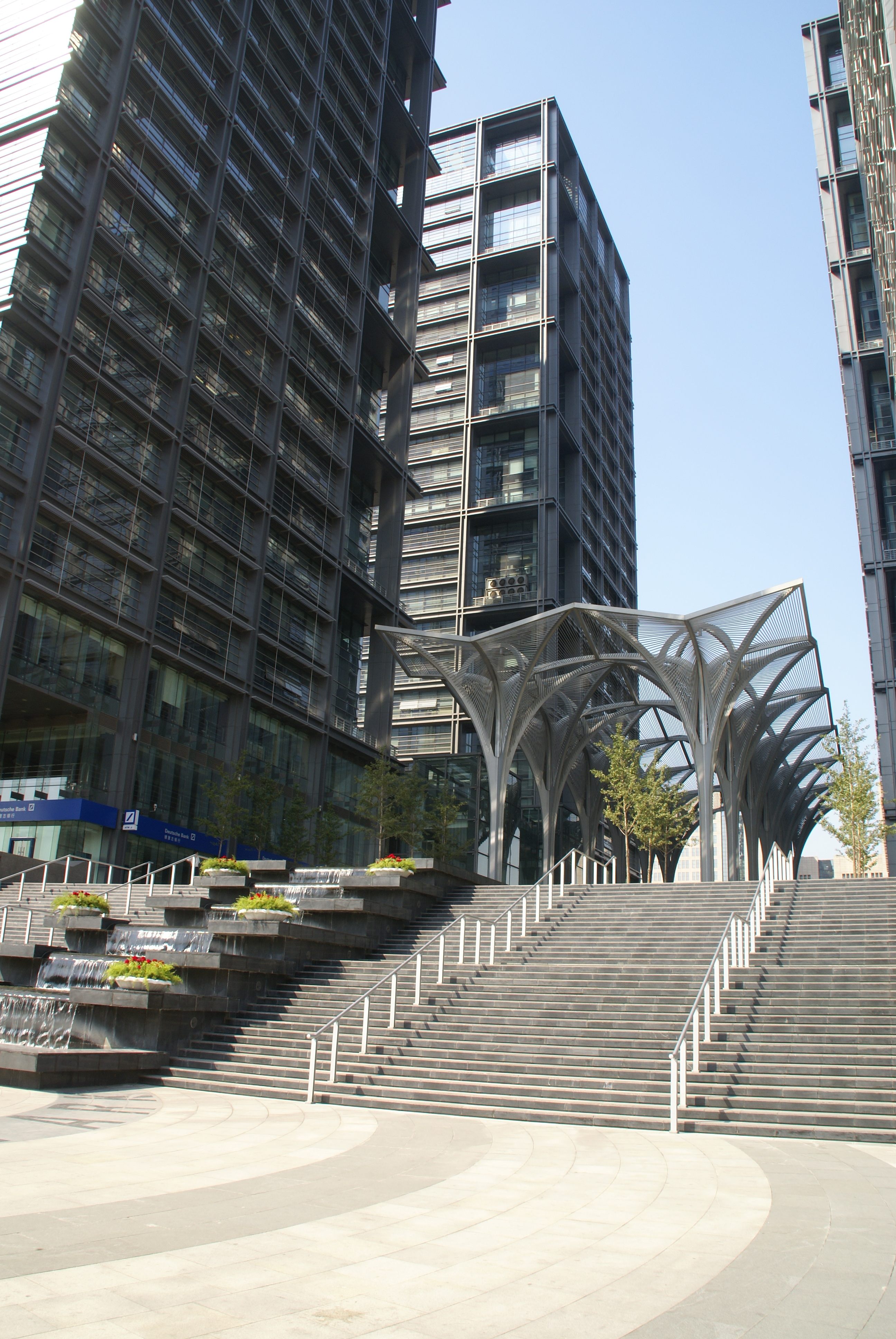 The Tsinghua Science Park (清华科技园) Towers, where Mozilla Online (谋智网络, Móu-zhì Wǎngluò), Mozilla's Chinese subsidiary, has its office. (dsc02462)